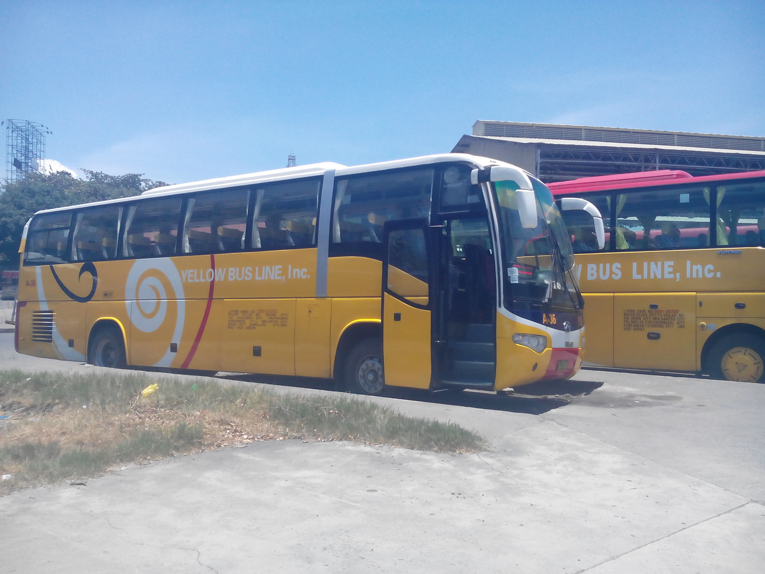 YBL Higer premier class